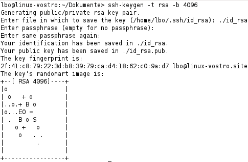 Screenshot of the program ssh-keygen while generating an RSA key.